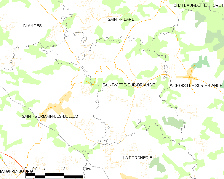 Map of French municipality Saint-Vitte-sur-Briance